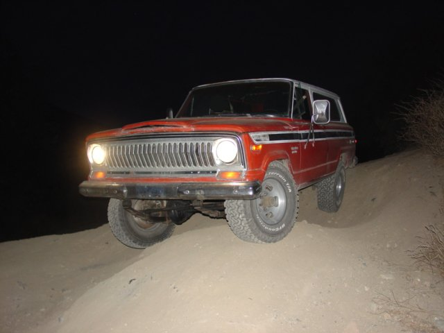 Taken by Rob